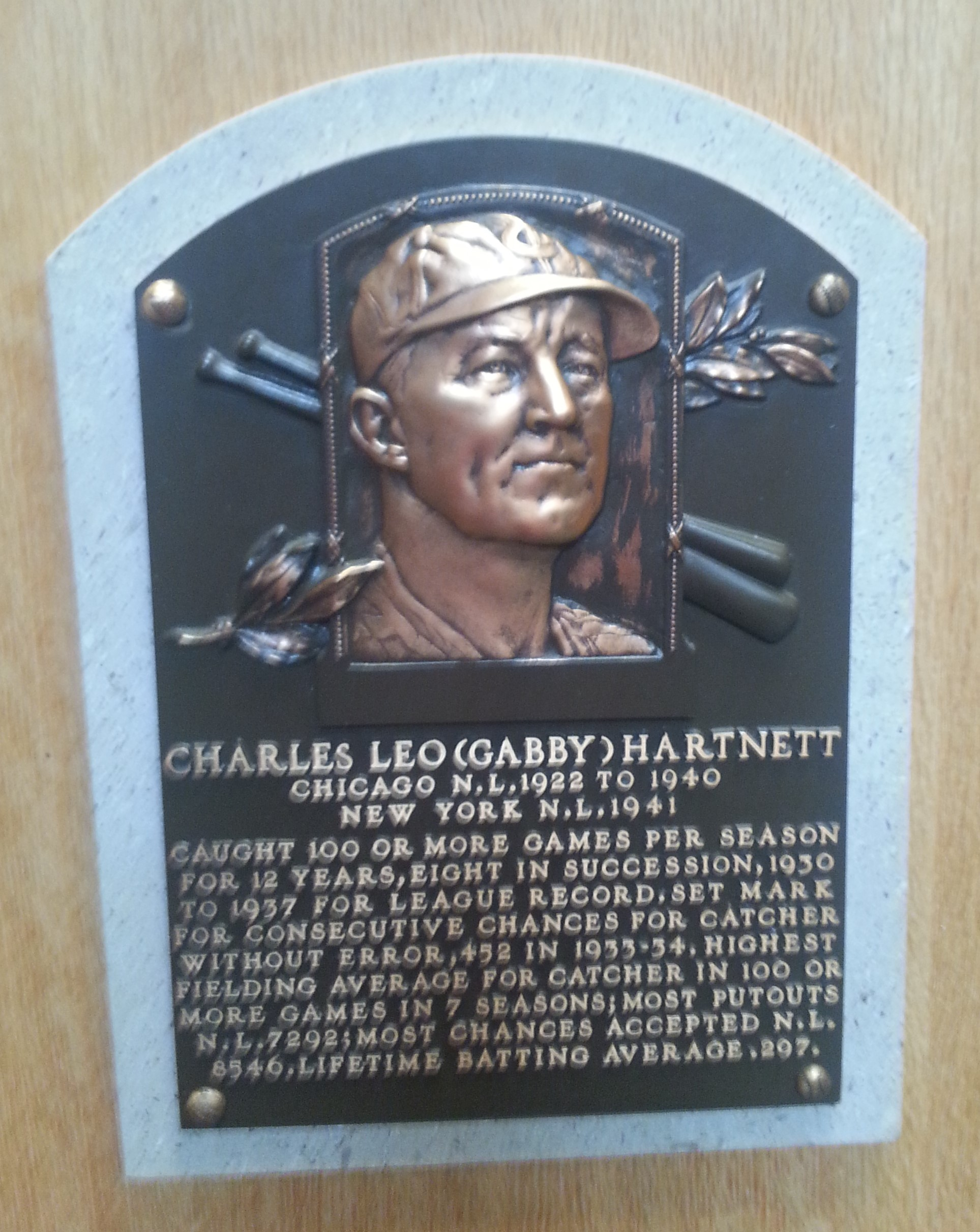 Gabby Hartnett plaque in the National Baseball Hall of Fame